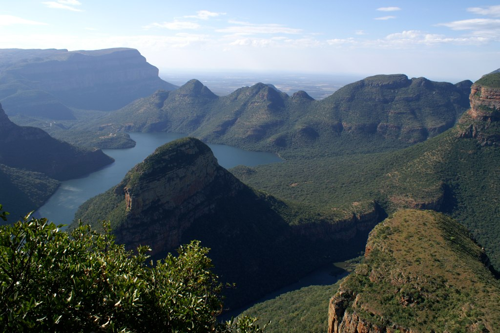 Blyde River Canyon in South Africa.